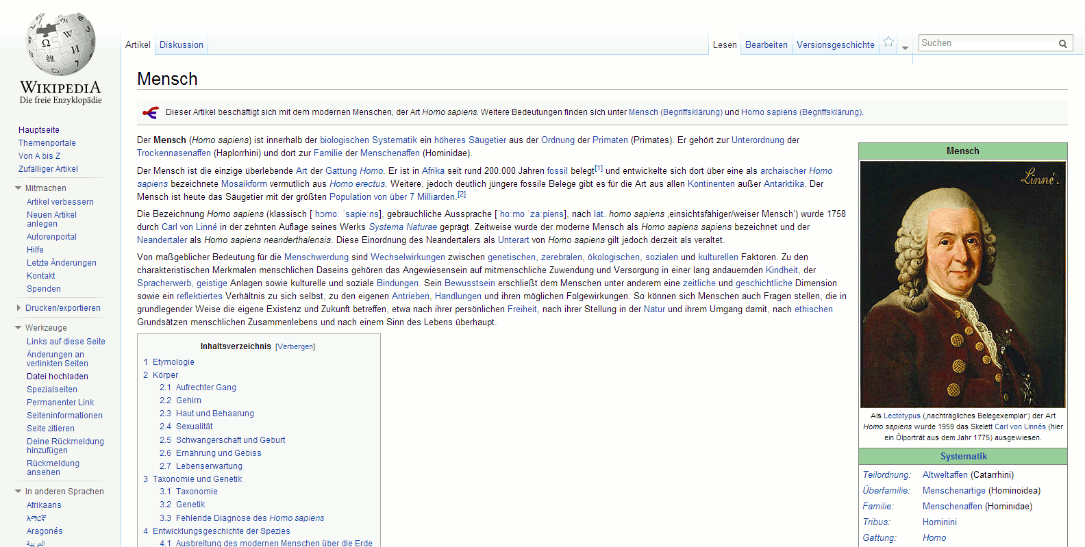 Wikipedia Screenshot